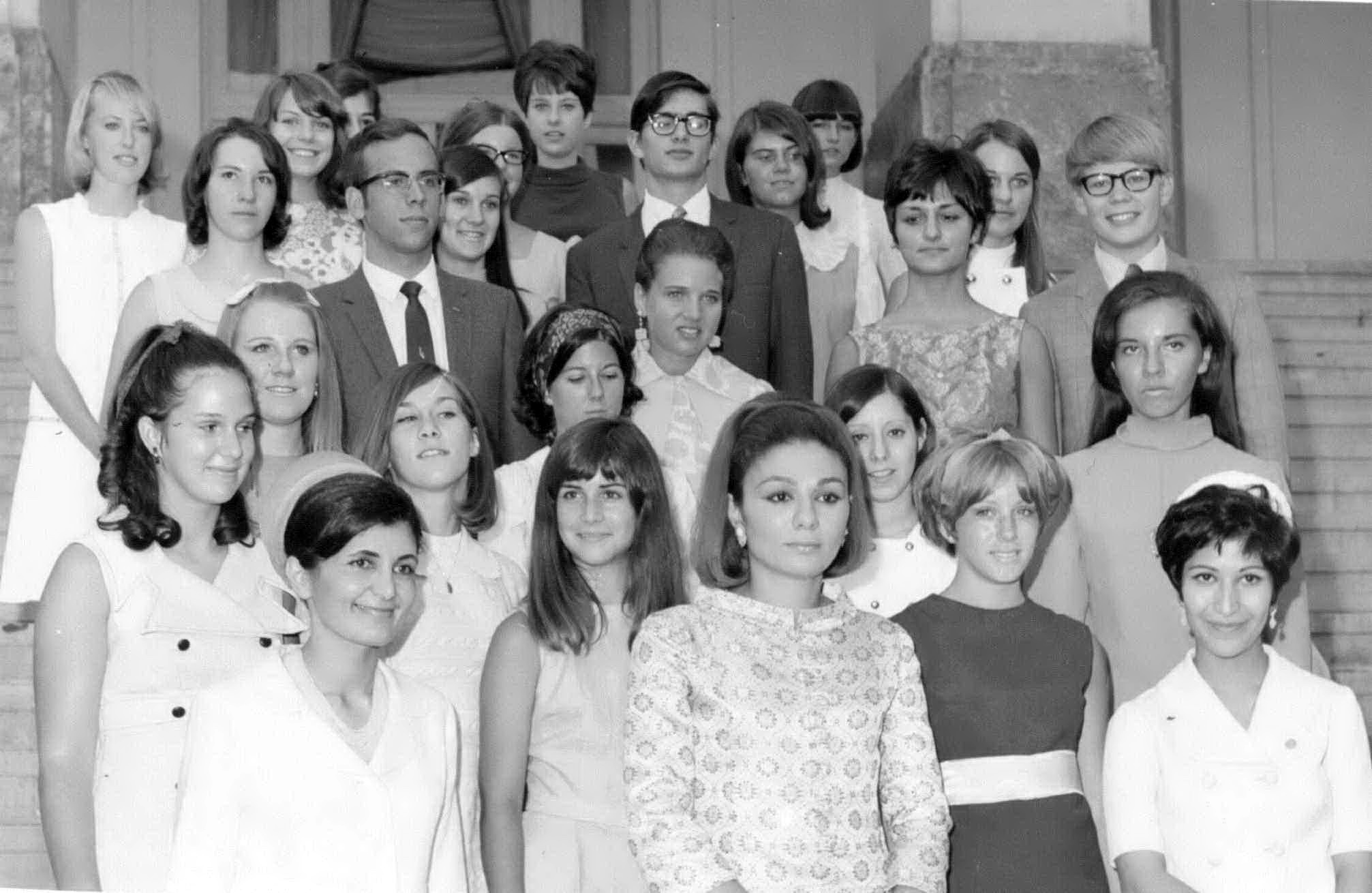 Farah Pahlavi and American Students in Iran- Sep 1969